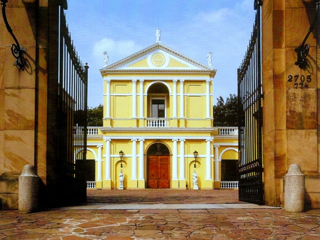 Façade of the Museu da Casa Brasileira, São Paulo, Brazil